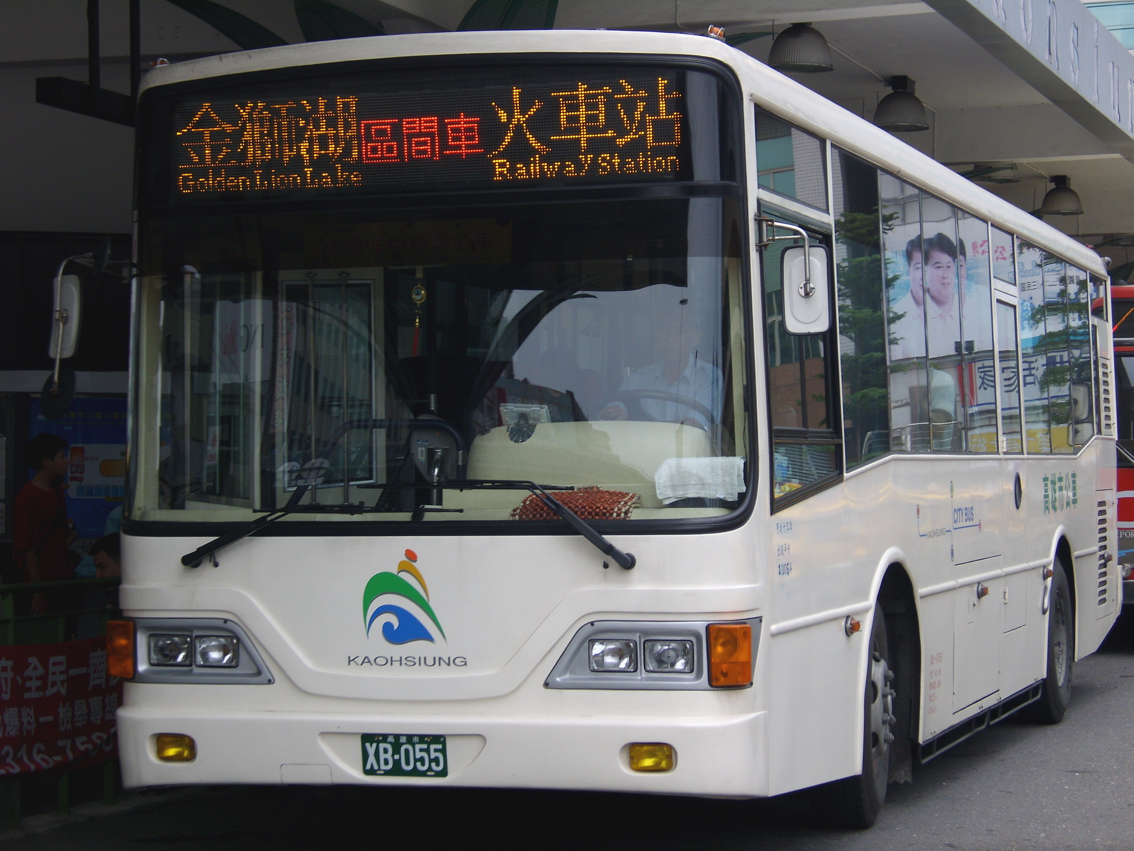 A Hino ERK1JMM bus is operated by Kaohsiung City Bus Department.